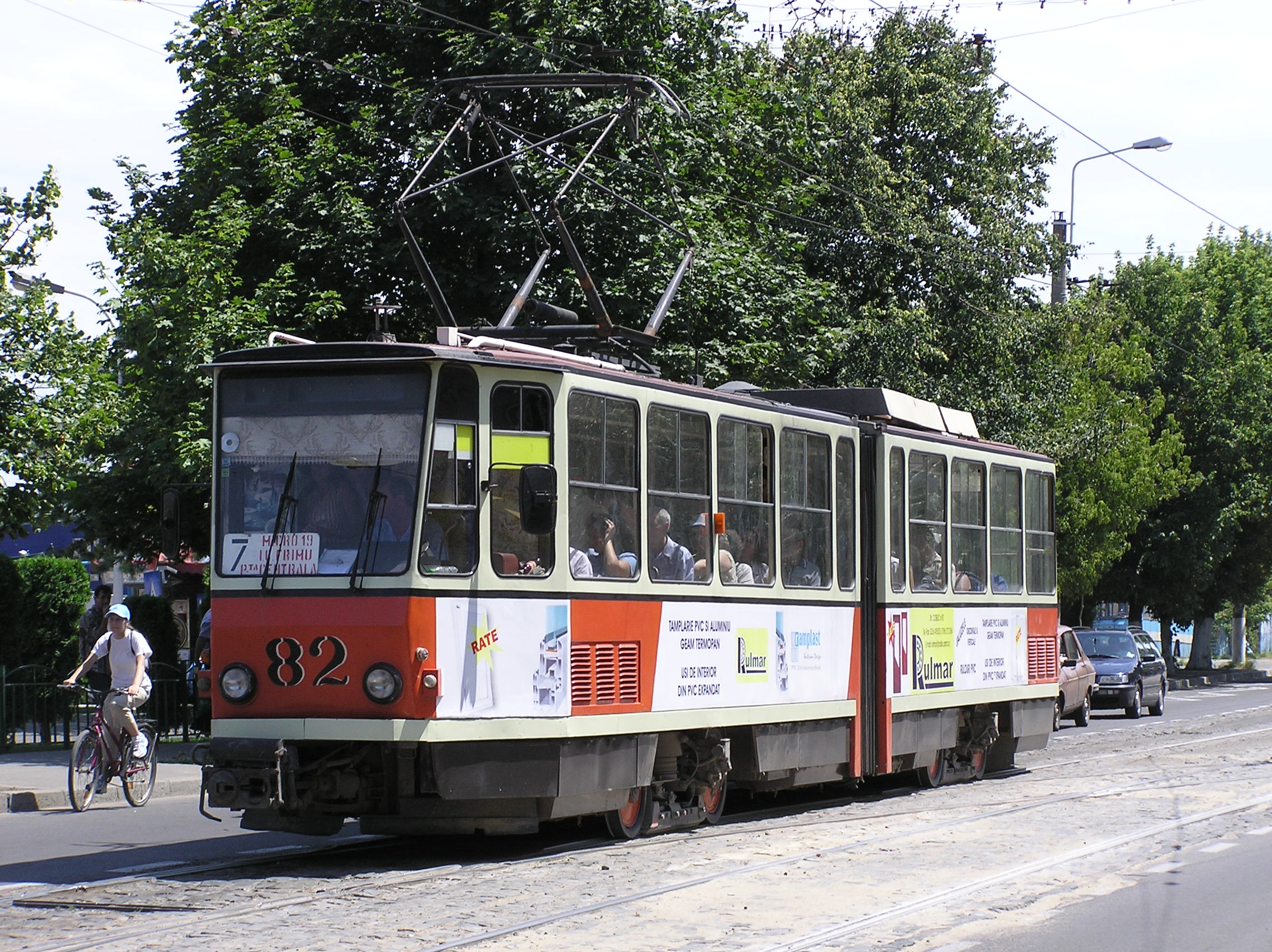 Tatra KT4D 82 in Galati, Romania, former 9137 in Berlin